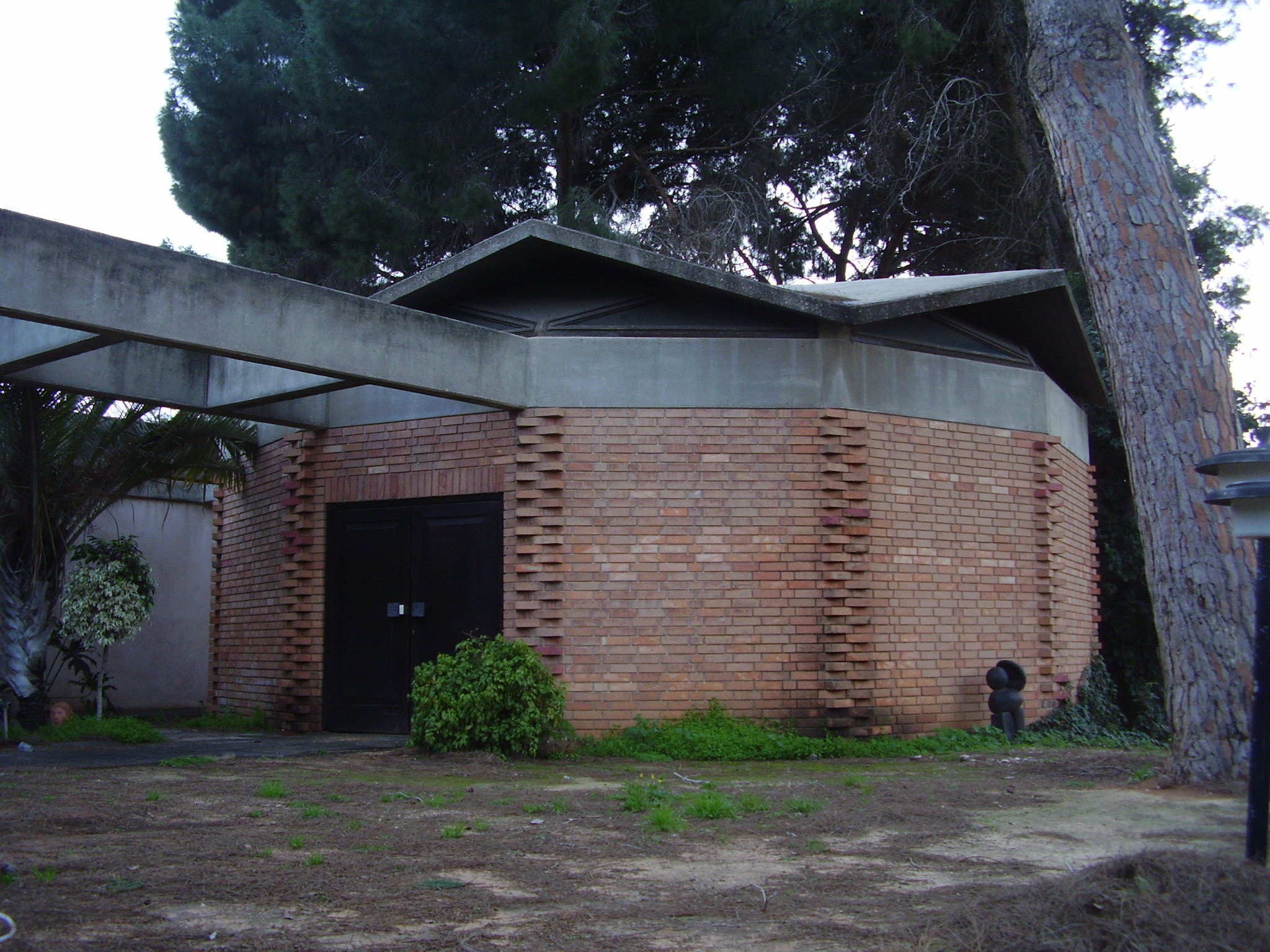 Beit Theresienstadt in Givat Haim Ihud